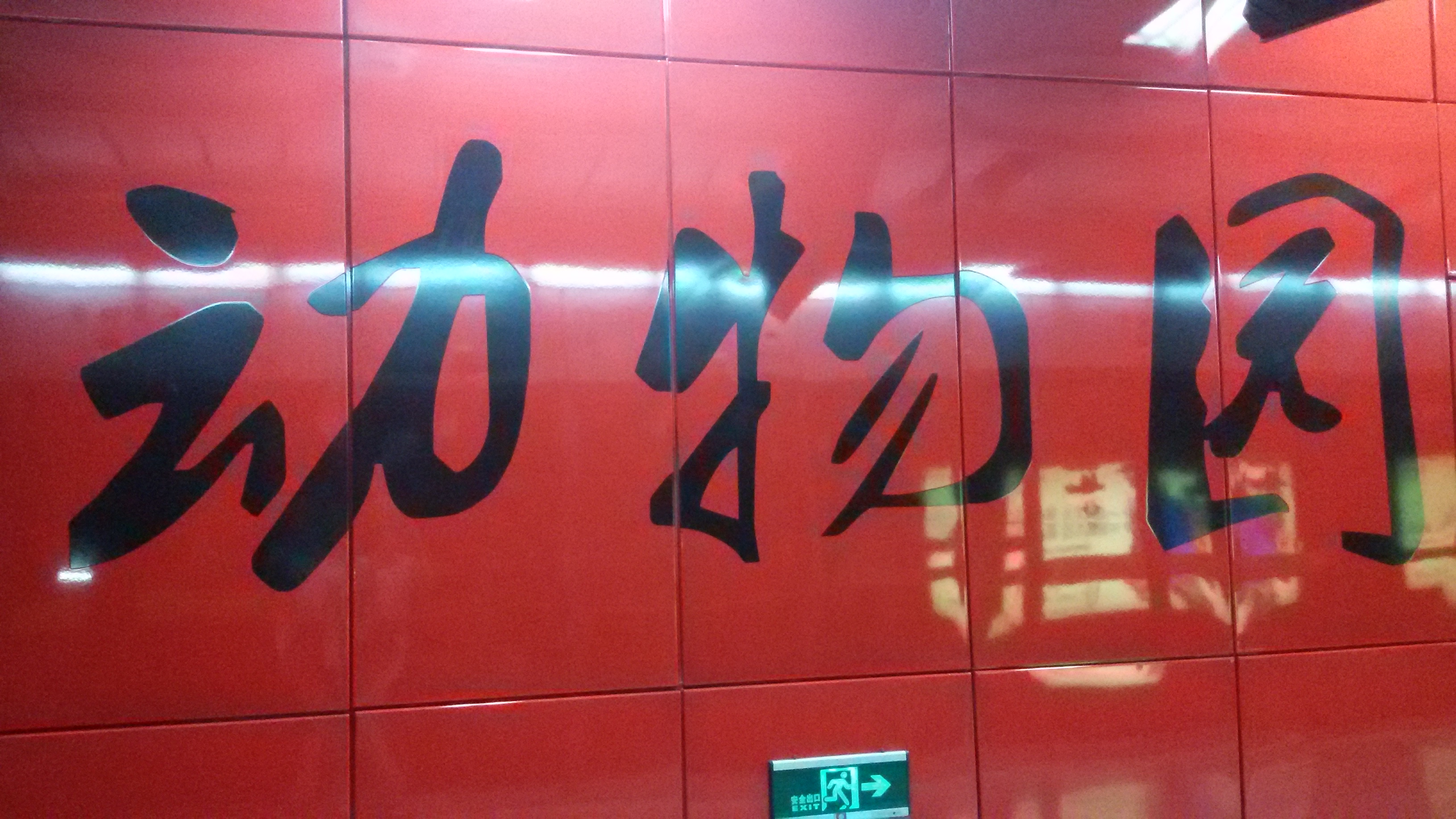 BIG WORD for Zoo Station in Guangzhou Metro